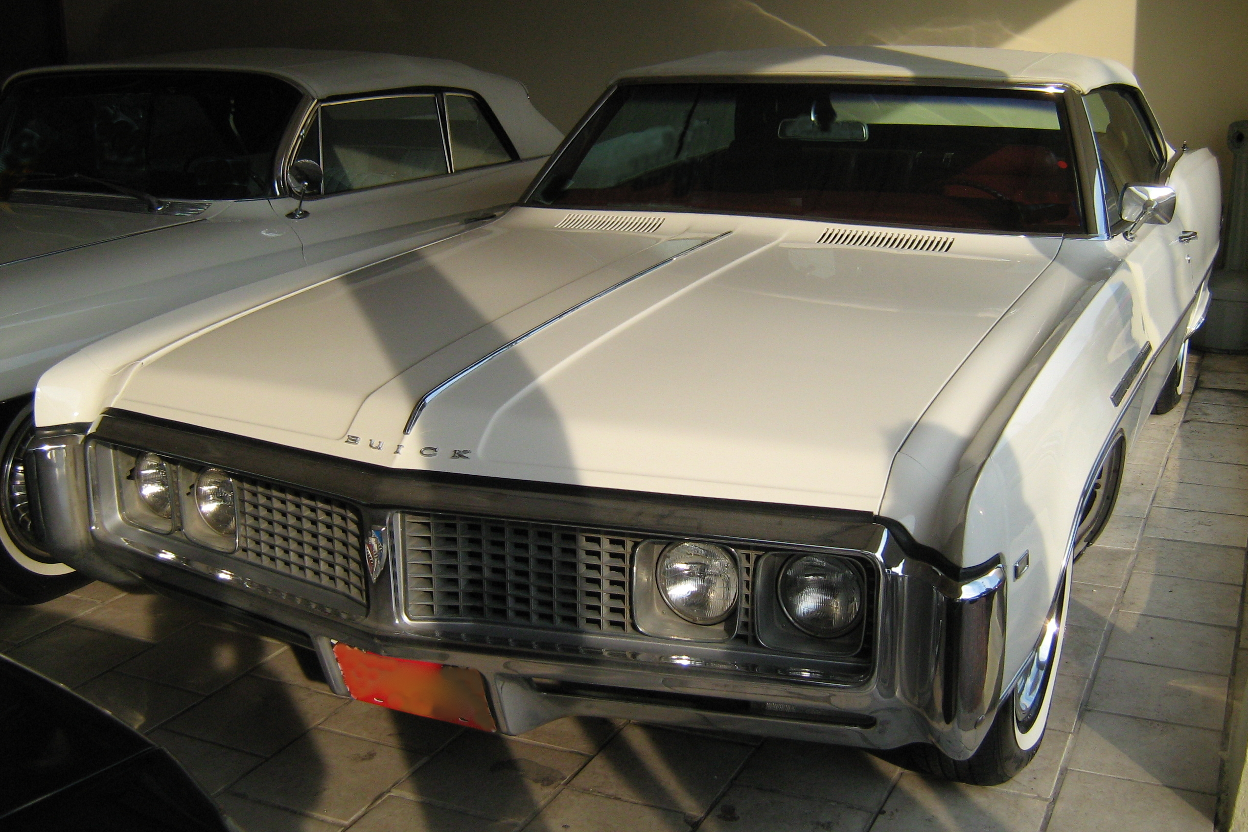 1969 Buick Electra 225 Custom front view of a convertible finished in white with red interior